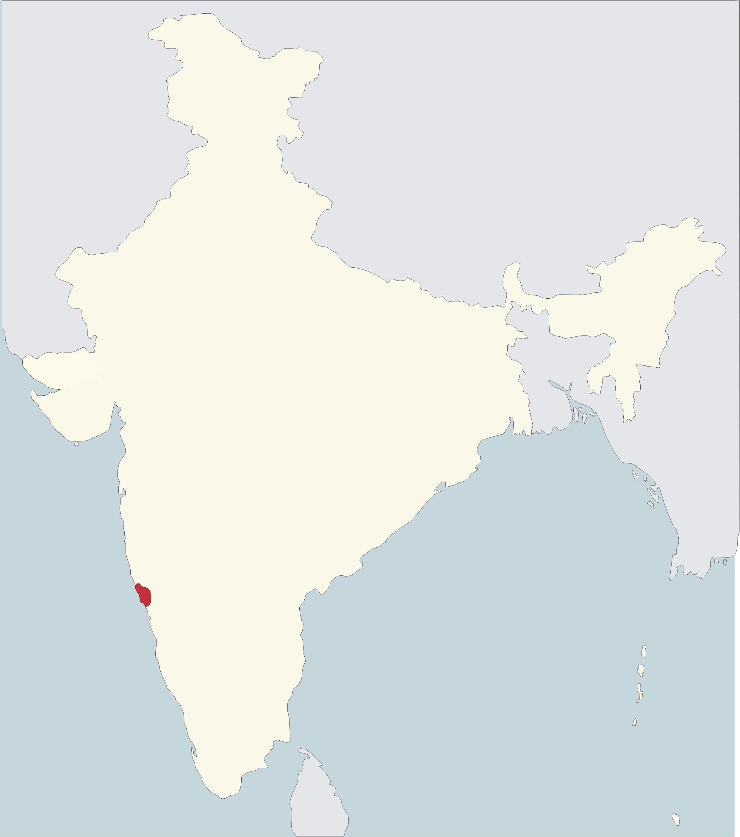 Map of the Roman Catholic Archiocese of Goa and Damao in India